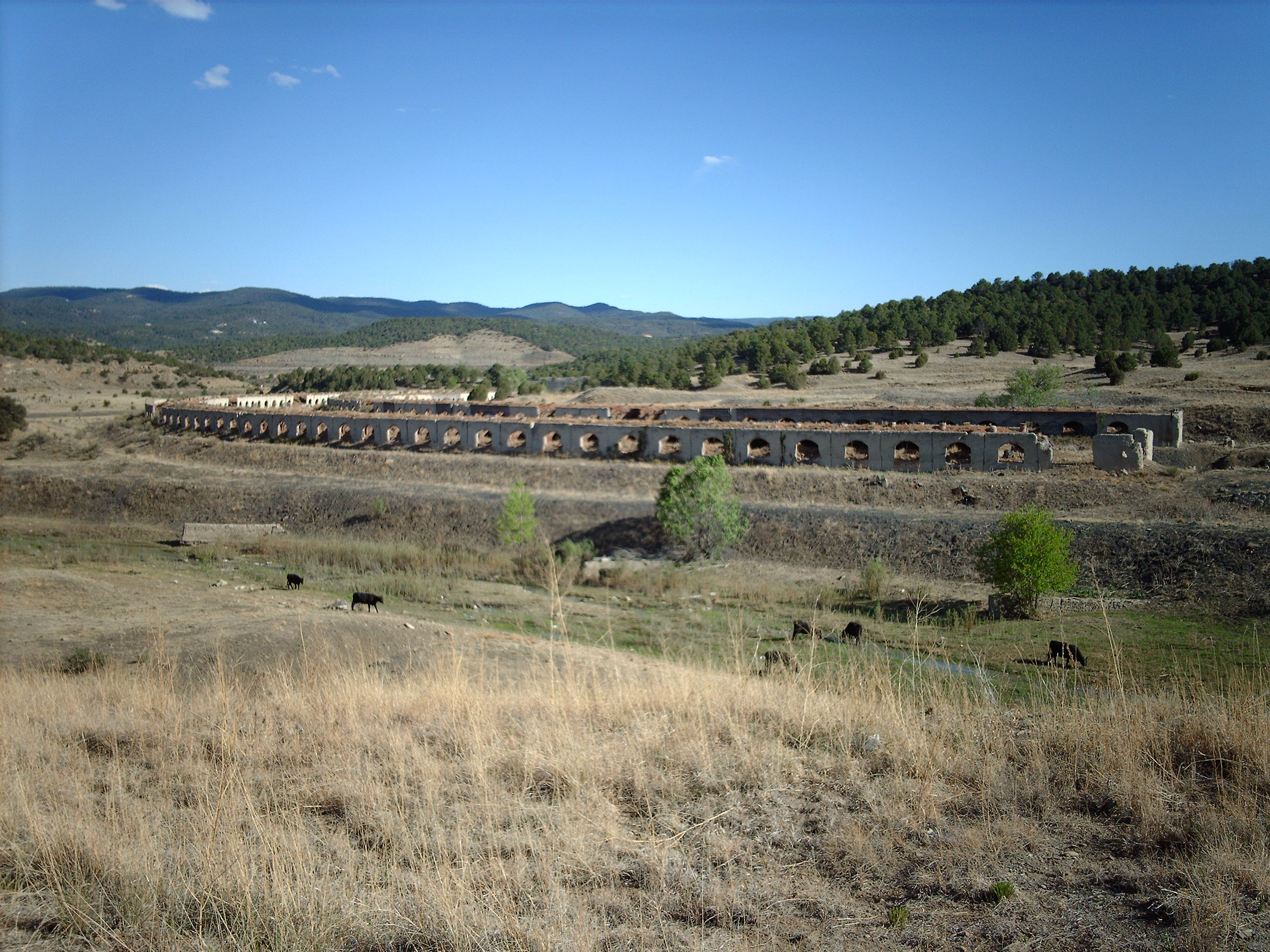 Cokedale